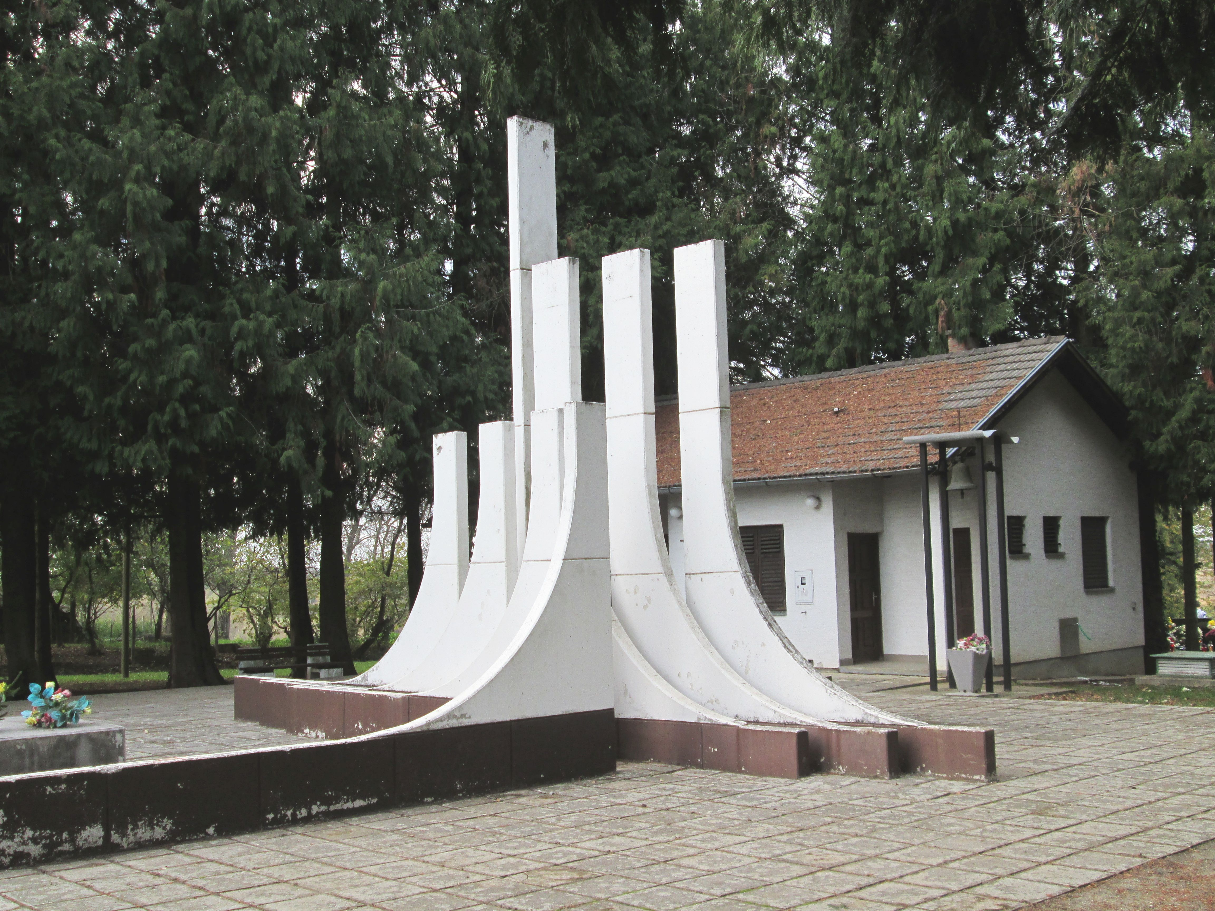 Monument to soldiers of World War II in Bulinac, Croatia